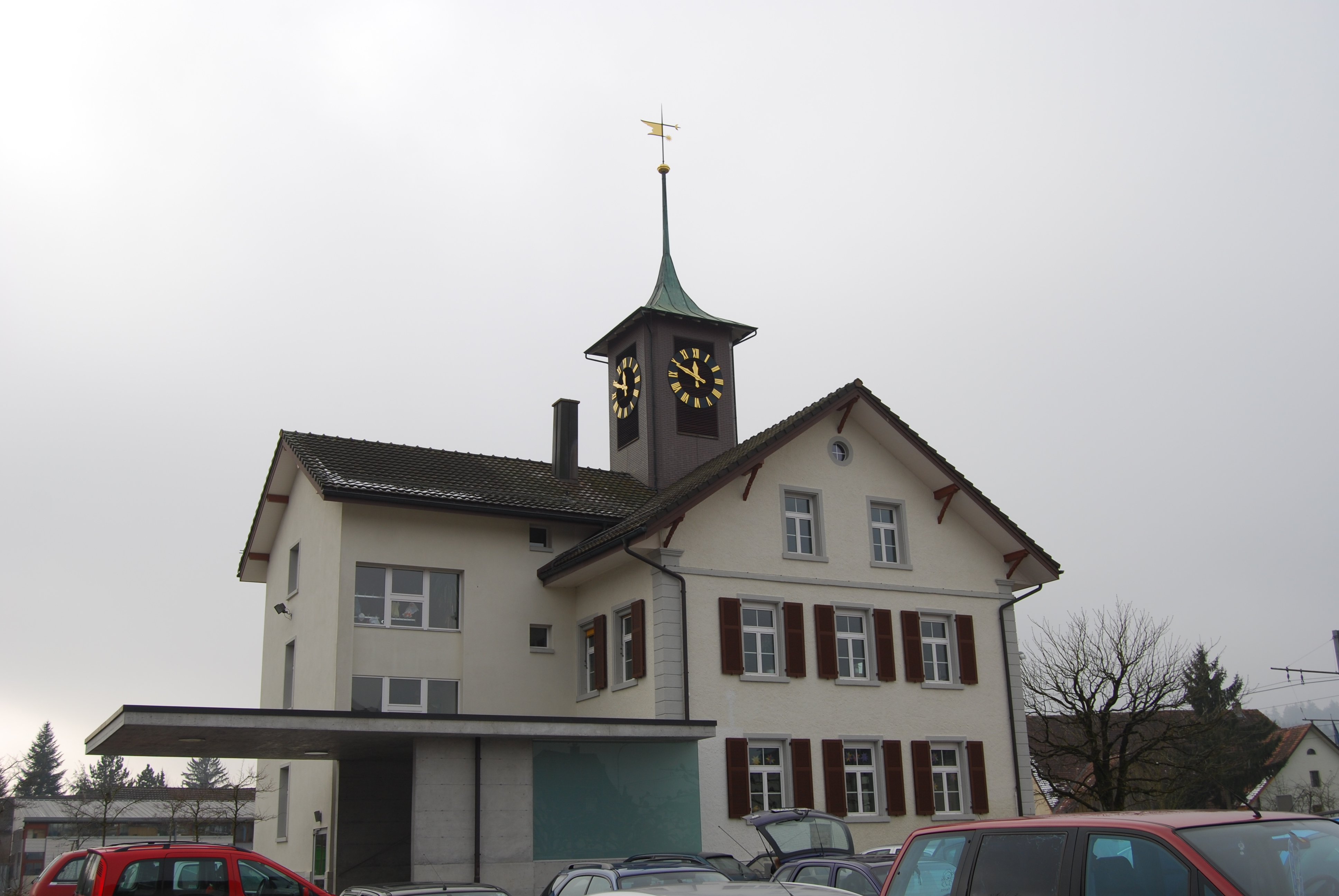 School at Hirschthal, canton of Aargau, Switzerland